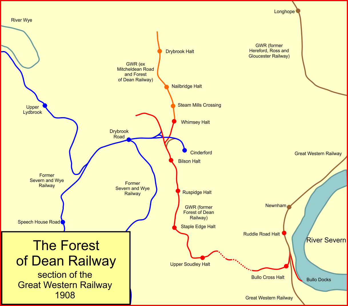 System map of the Forest of Dean Railway, Gloucestershire, England, in 1908